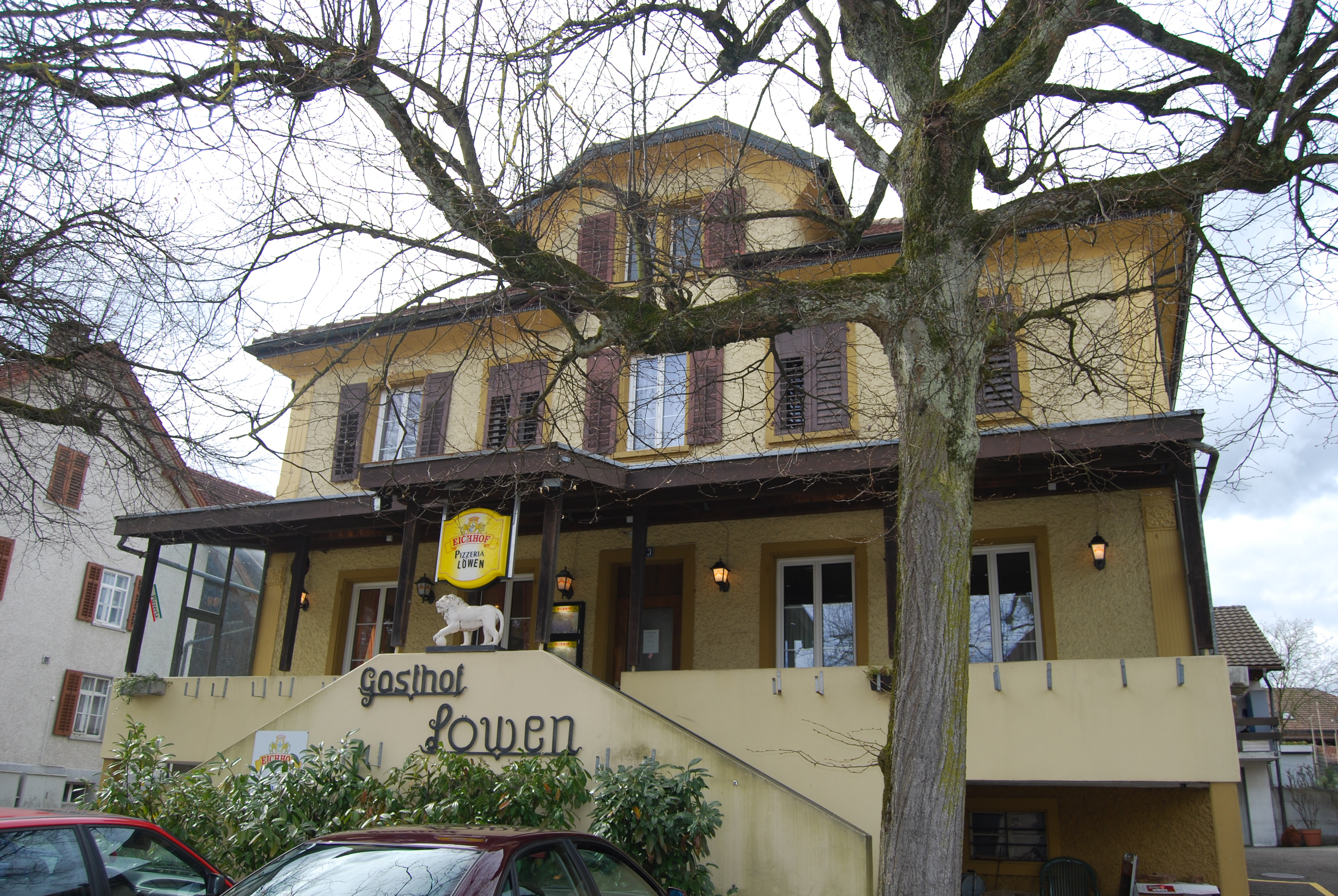 Gasthof Löwen at Scherz, canton of Aargau, SwitzerlandEsperanto: Gastejo Löwen en Scherz, Kantono Argovio, Svislando